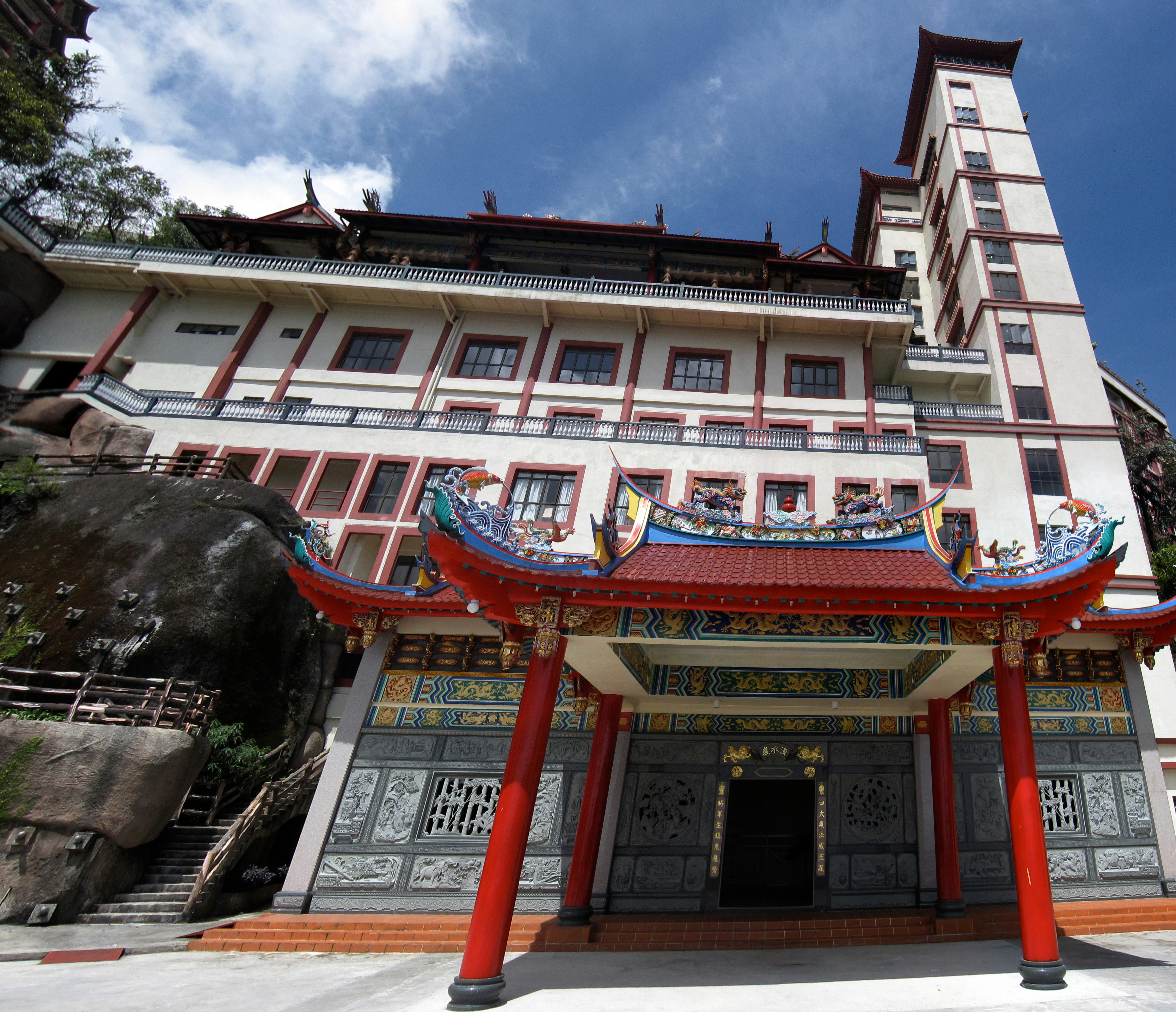 Chin Swee Caves Temple in the Genting Highlands, Kuala Lumpur.